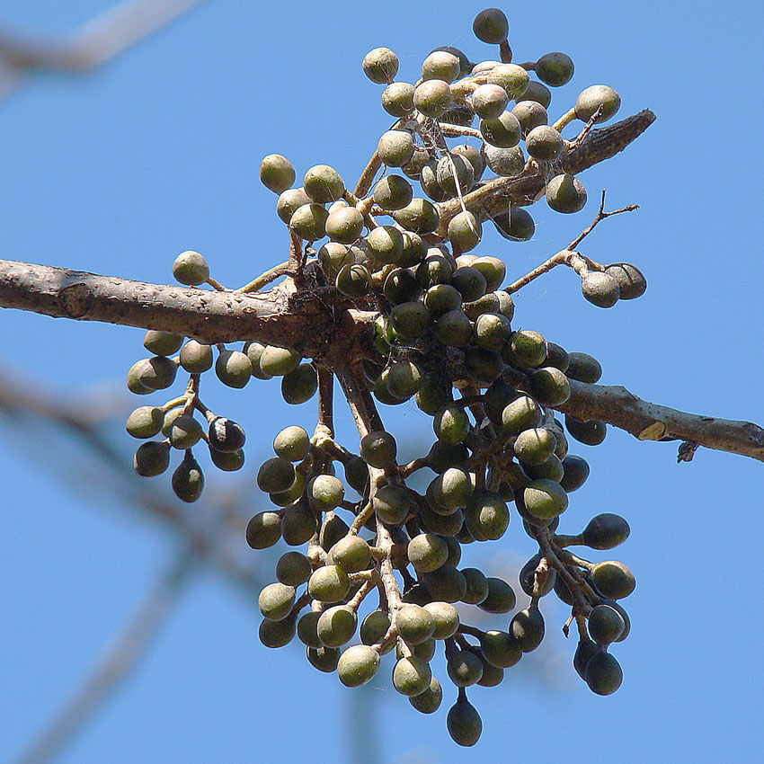 Fruit of the Gumbolimbo or Copperwood Tree. Native to the northern Neotropics and Caribbean. Photo from Central Nicaragua. In context at